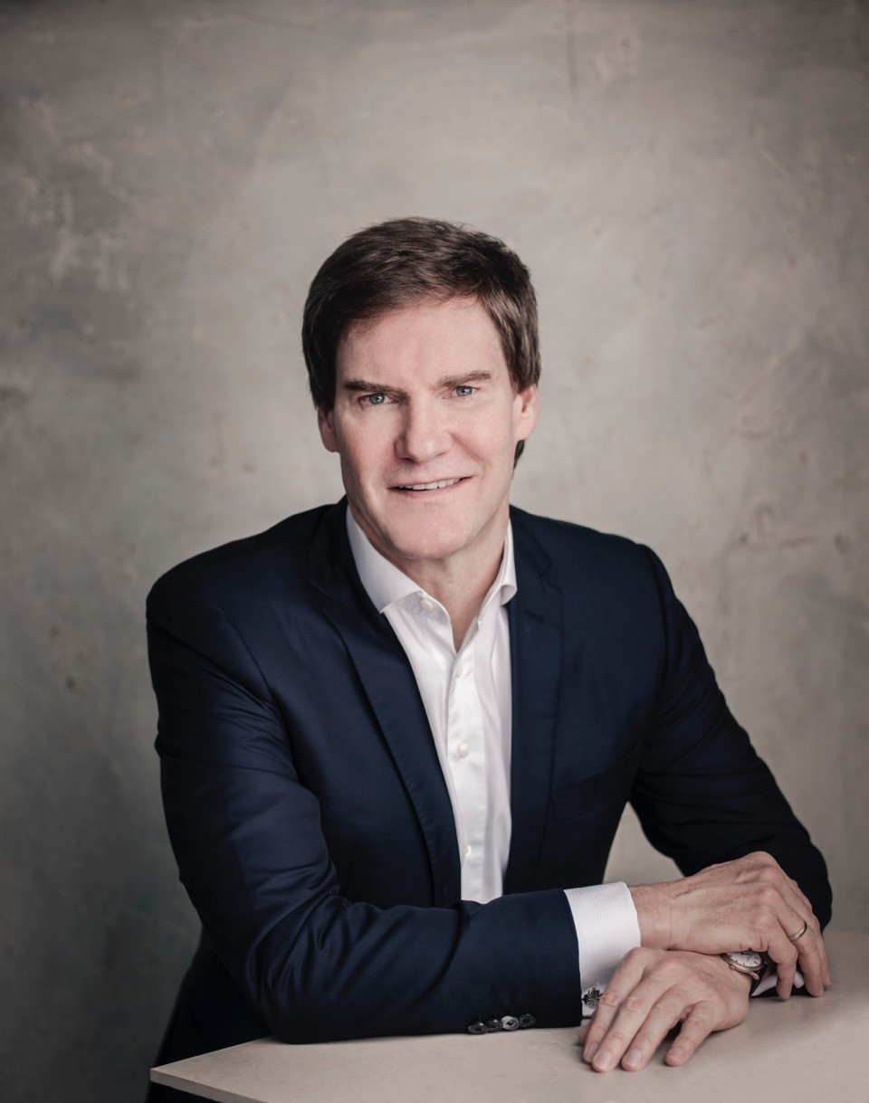 Carsten Maschmeyer